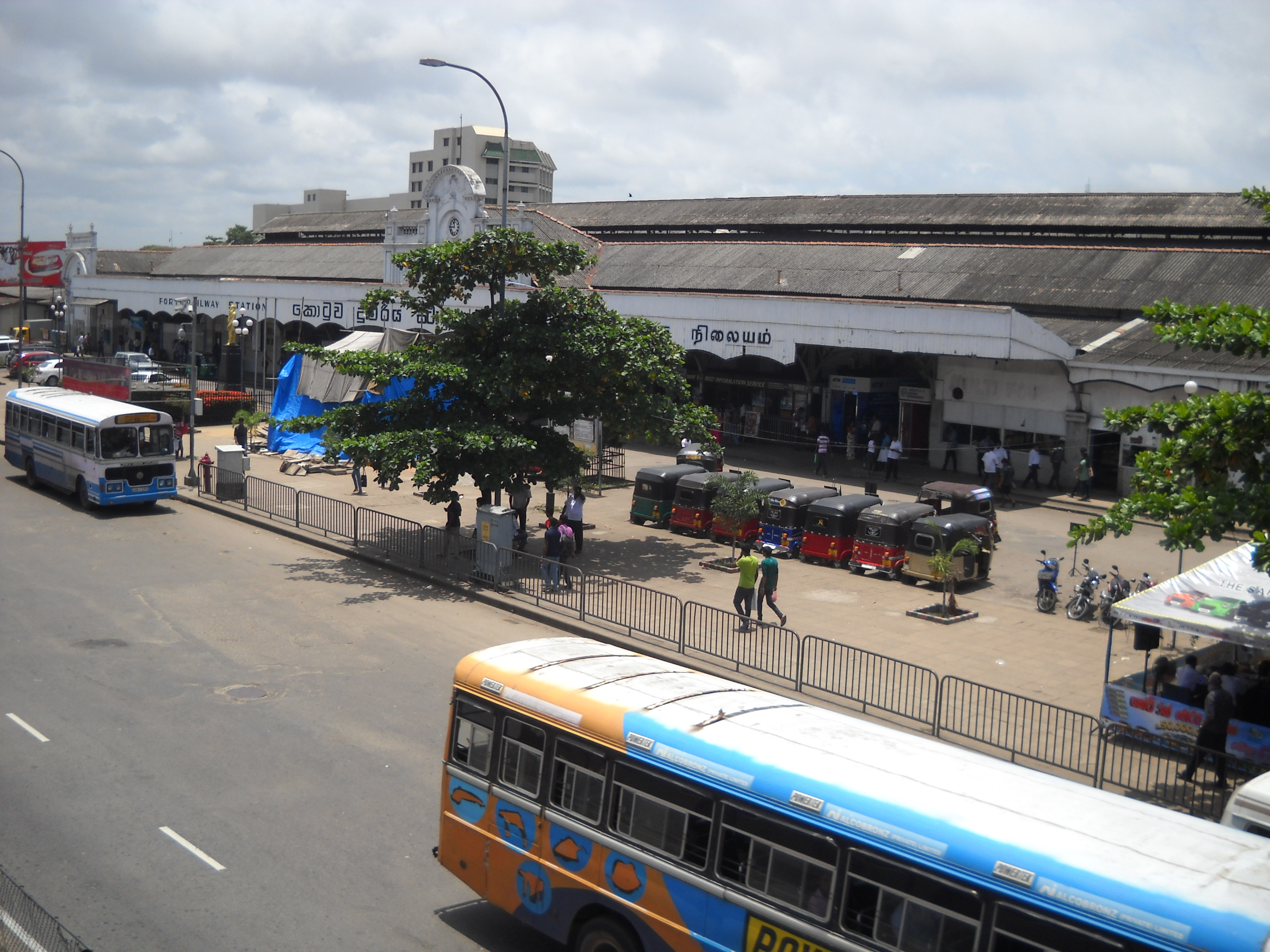 Fort Railway Station, a major rail hub in Colombo, Sri Lanka